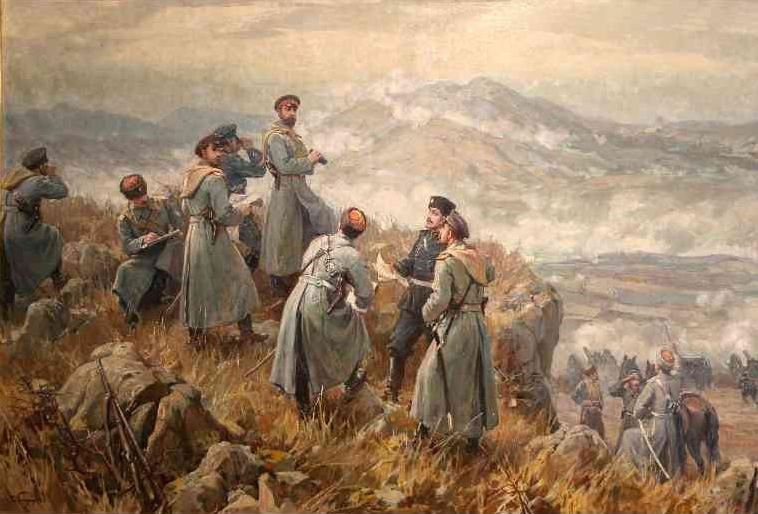 Prince Alexander Batenberg on the battlefield at dragoman